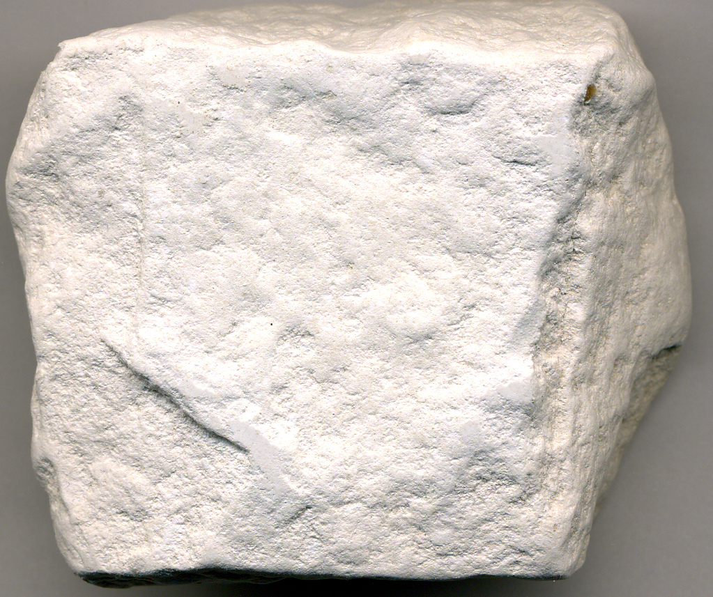 Diatomite (diatomaceous earth) (6.8 cm across) from the Miocene-aged Monterey Formation at a diatomite quarry just south of Lompoc, Santa Barbara County, southern California, USA.